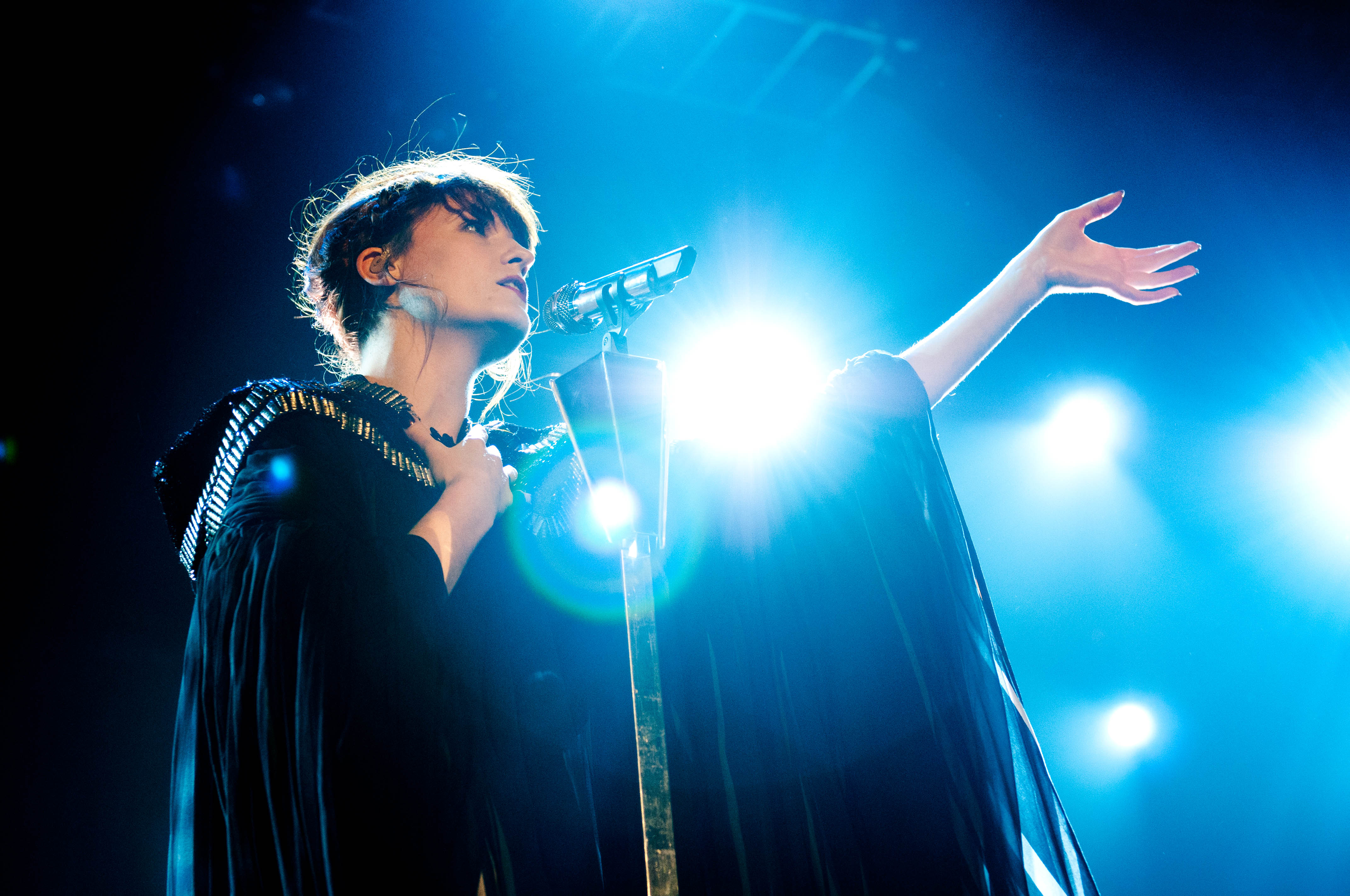 Anais photography Auckland concert Florence-And The Machine